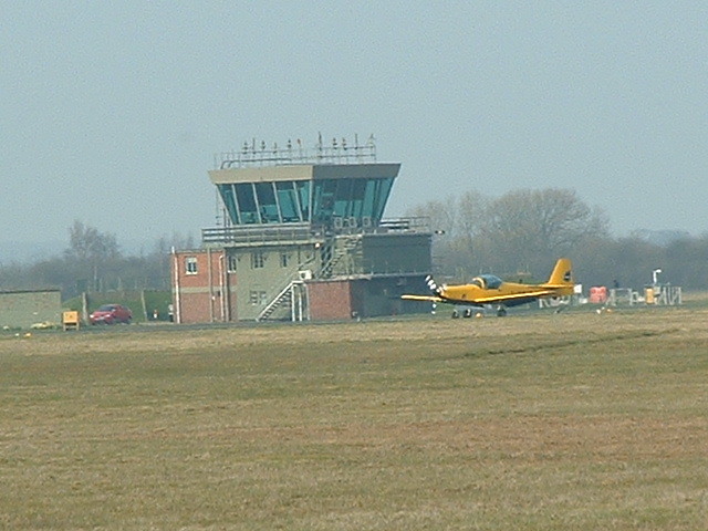 Control Tower RAF Church Fenton. Raf Church Fenton is the home of the Leeds University Air Squadron. And satellite of RAF Linton upon Ouse